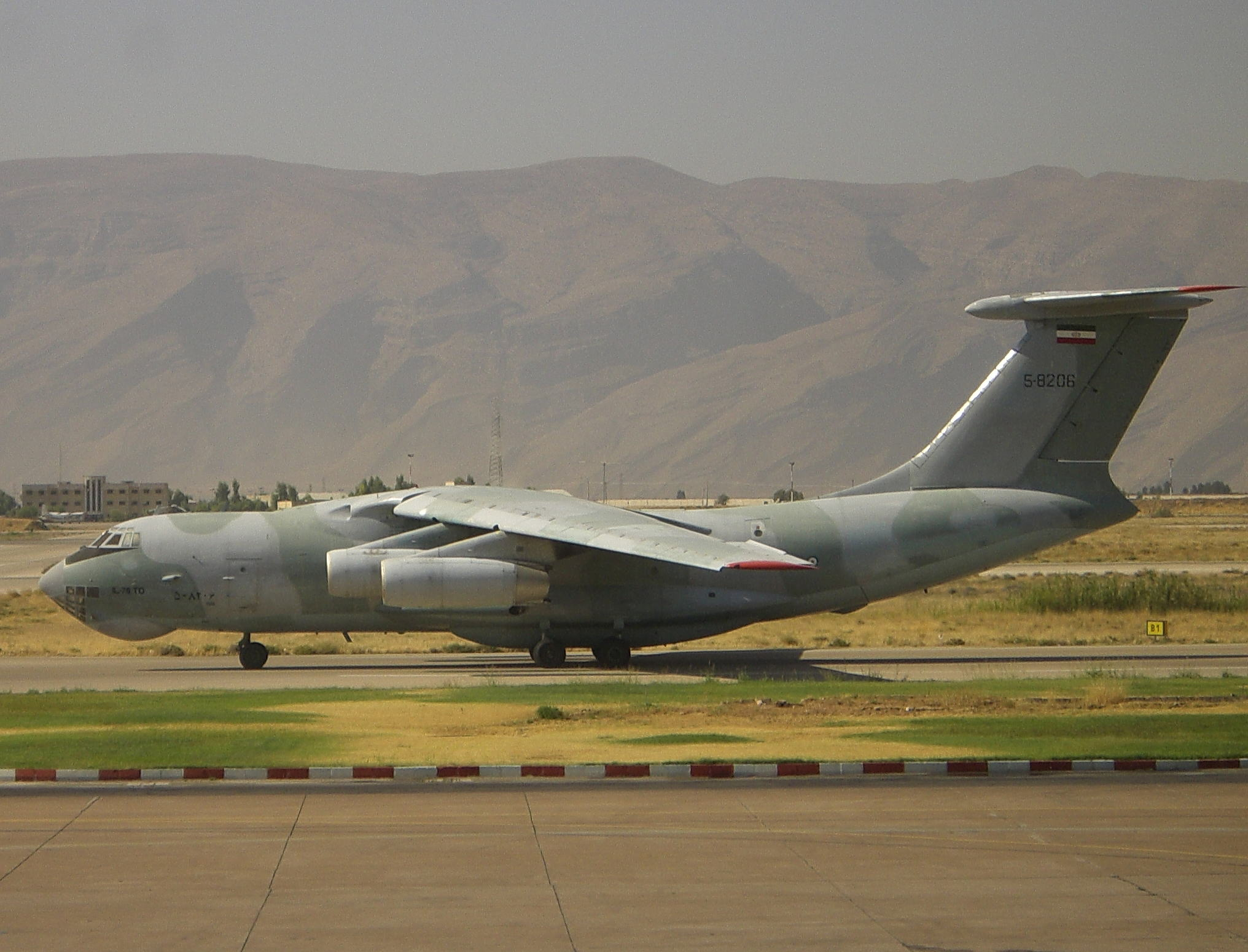 Il-76TD of Iran Airforce at Shiraz International Airport on September 22nd, 2007